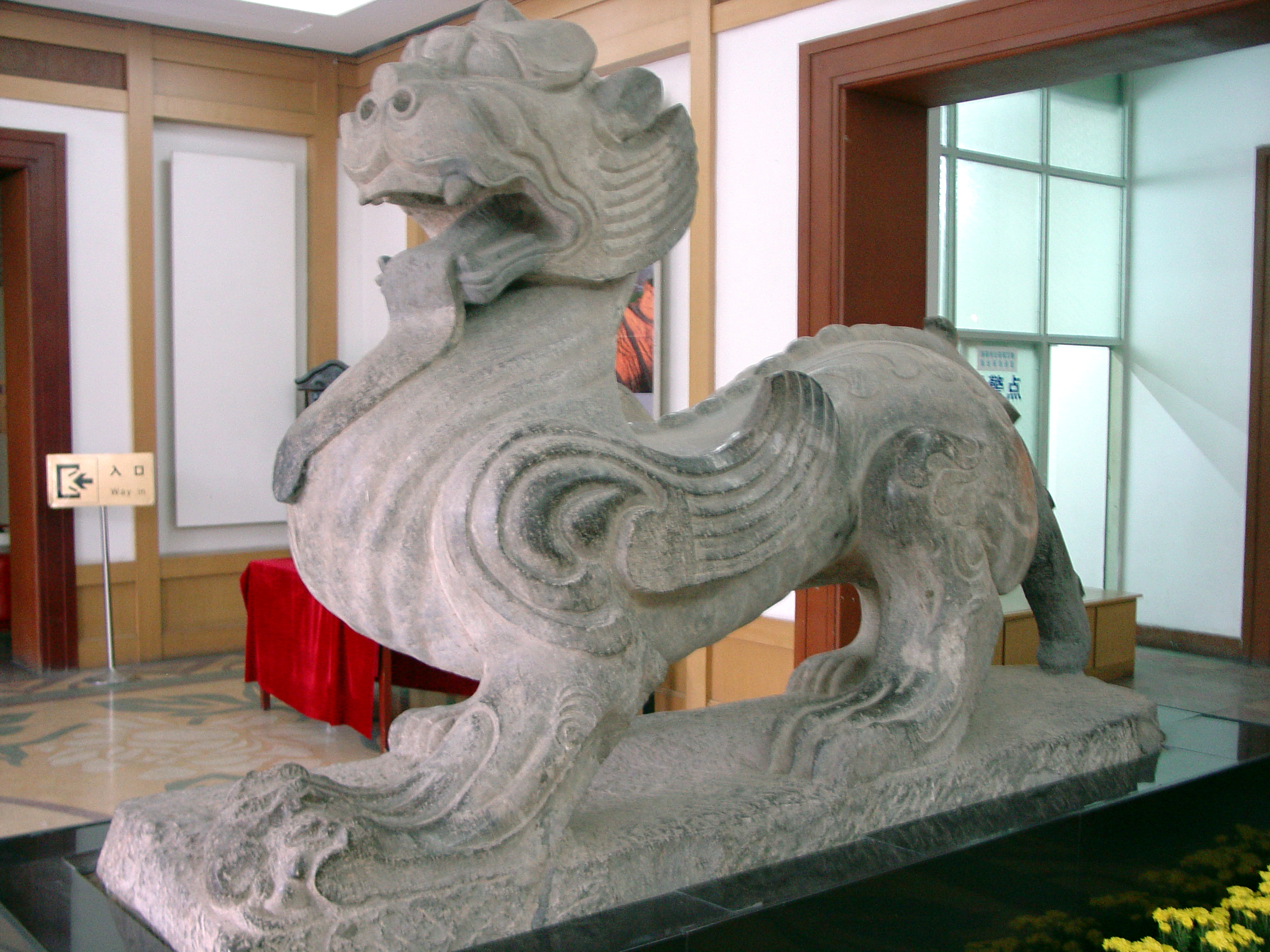 Tianlu (Tomb Guardian). Eastern Han Dynasty, 25 AD - 220 AD. City Museum, Luoyang Creatures such as this were set along an emperor's Spirit Path to guard the approach to his tomb. This guardian can be identified as a tianlu by its elongated, lion-like body, wings, and horn. A very long tongue extends from the tianlu's open mouth to drape itself upon the creature's puffed-out chest.